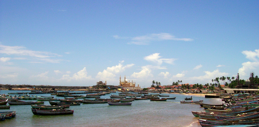 Vizhinjam Port in Thiruvananthapuram